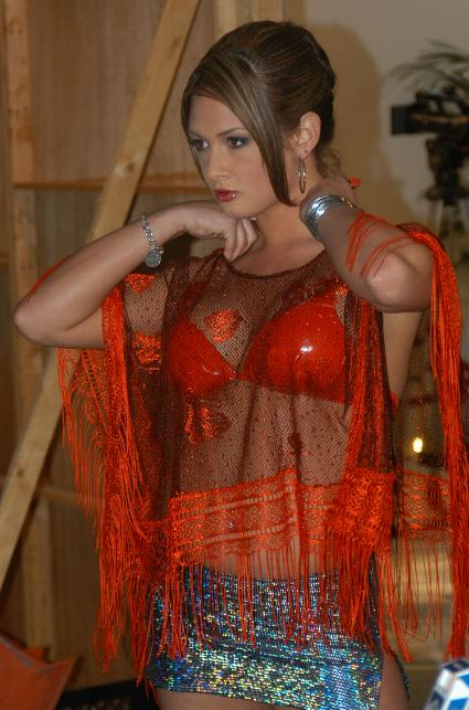 Tory Lane On Set With Da Vinci Load From Hustler Video.